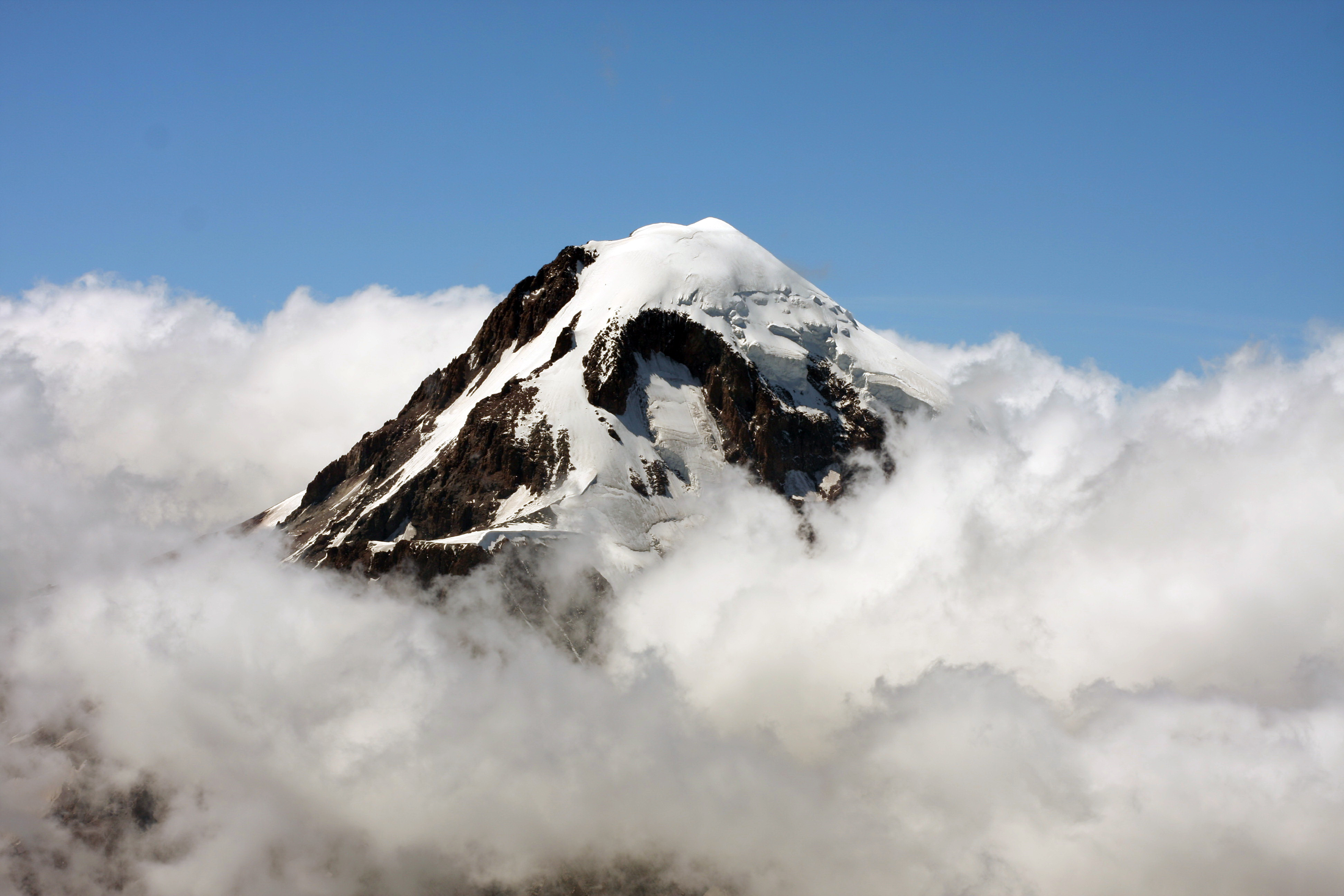 ღრუბლებში შეფუთული ყაზბეგი